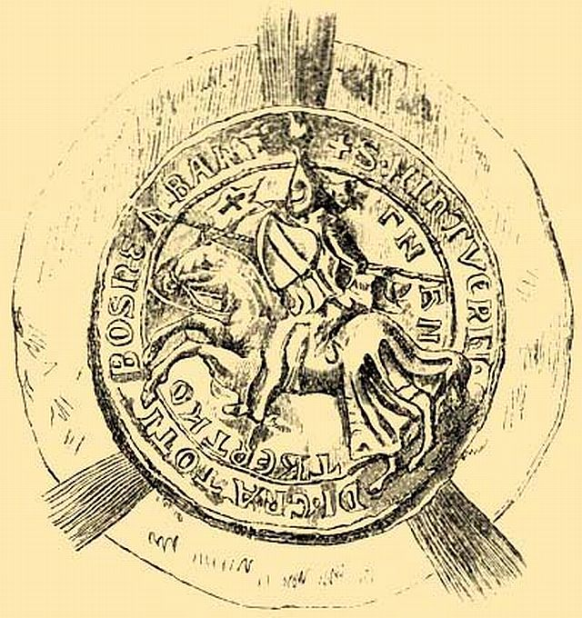 Seal of Tvrtko I of Bosnia